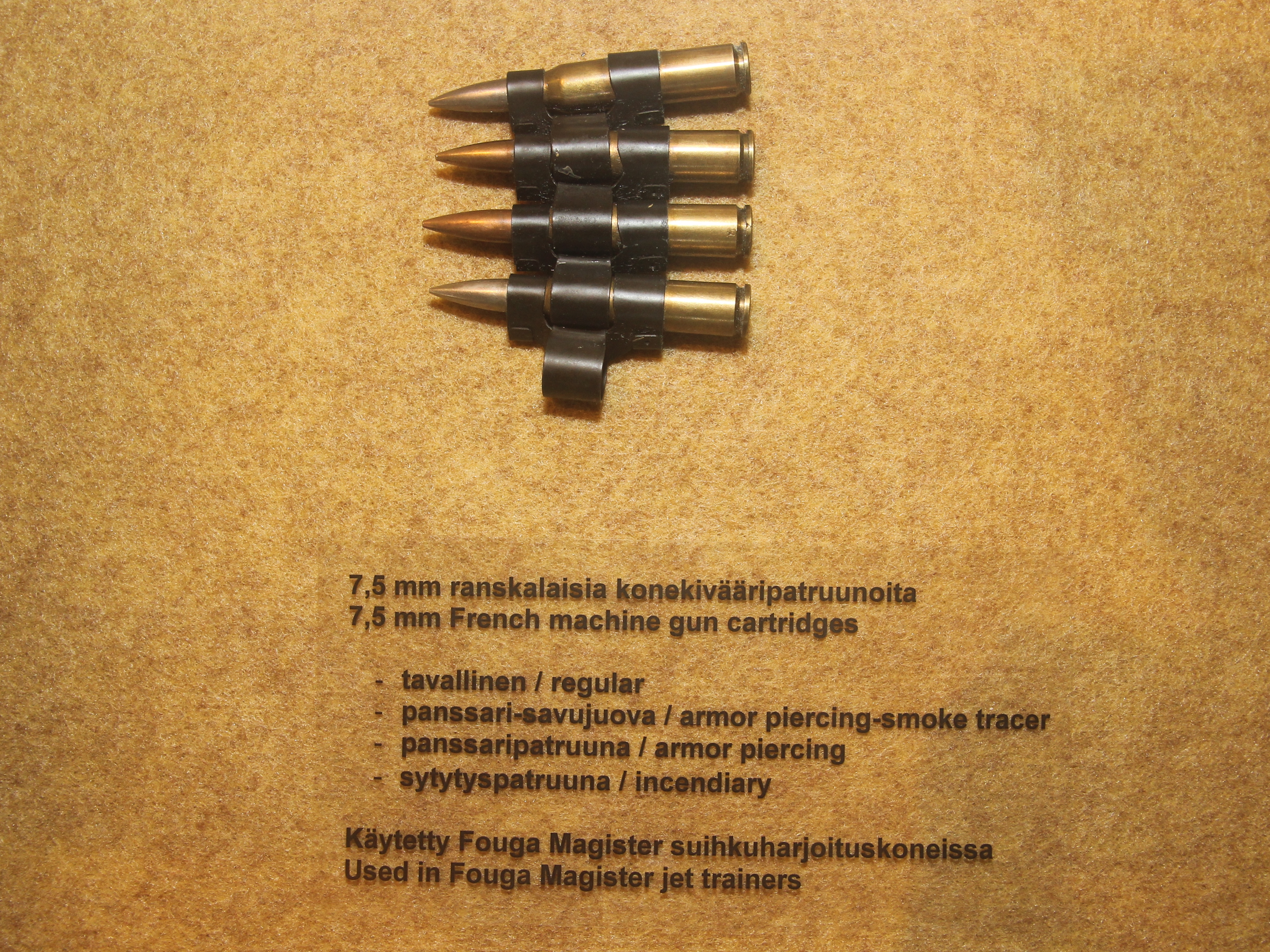 French 7.5 mm MAC 52 aircraft machine gun ammunition belt in the Aviation museum of Central Finland.